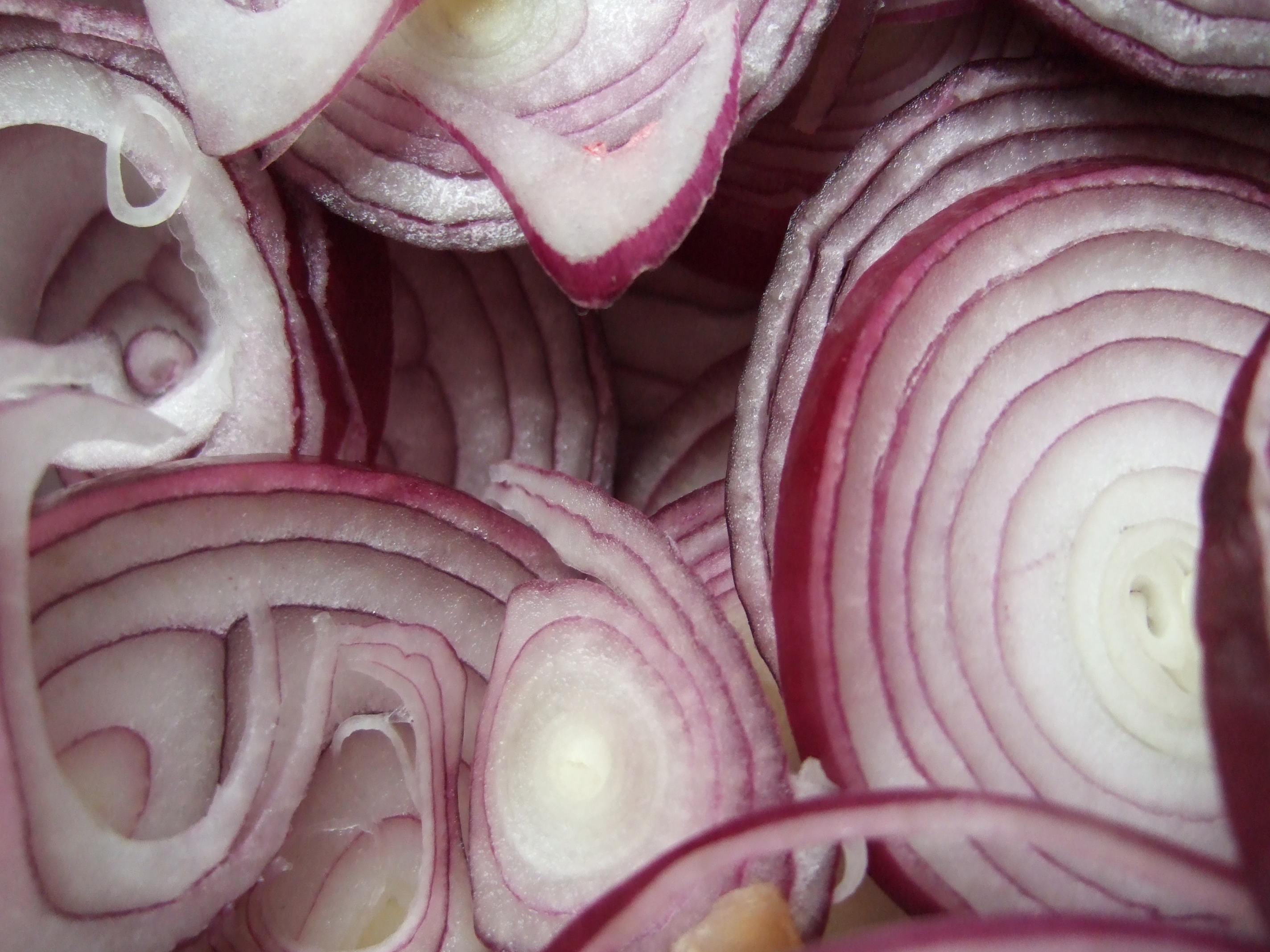 Rings of red onions, closeup.